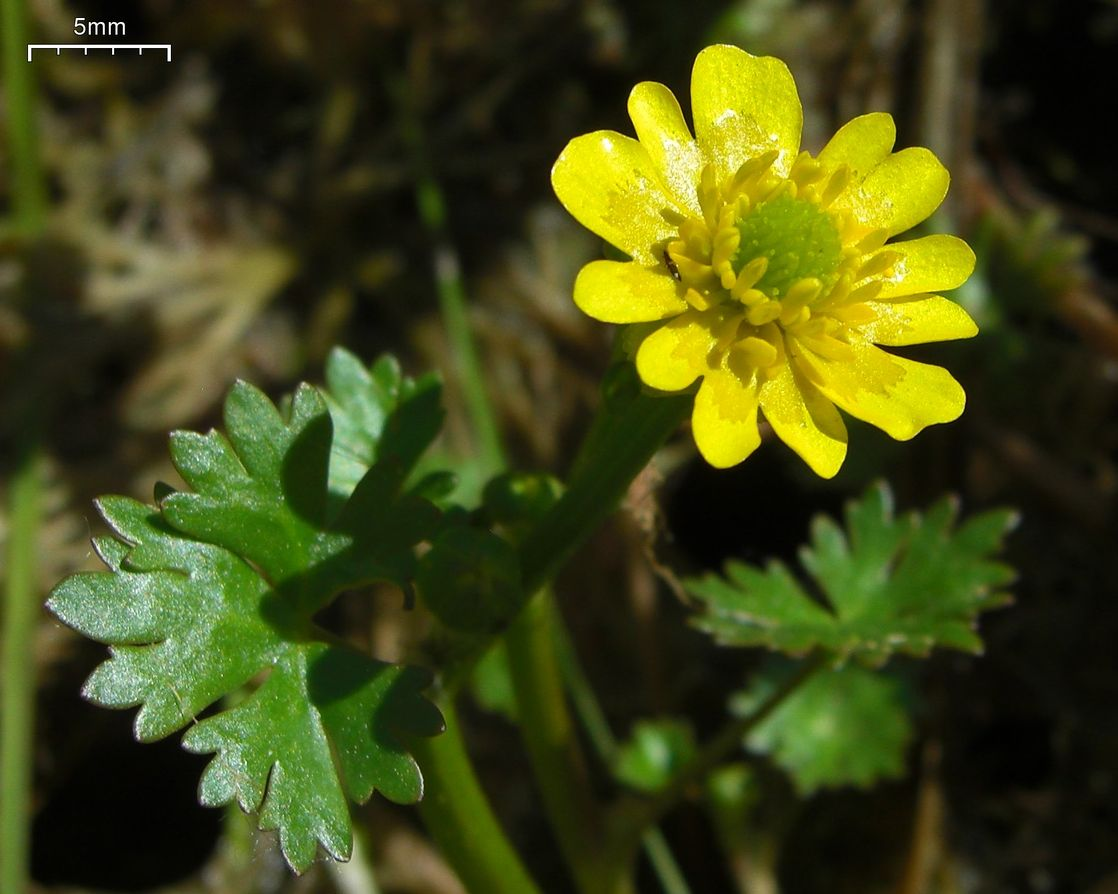 Ranunculus flabellaris Raf. 20090623 (photo #22) near Grande Cache, Alberta (Pretty sure of the ID...)